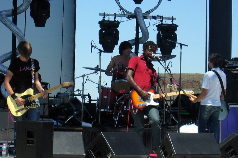 Despite heat-related equipment faliures, Bloc Party won the early crowd over. Sasquatch Music Festival @ The Gorge, WABloc Party